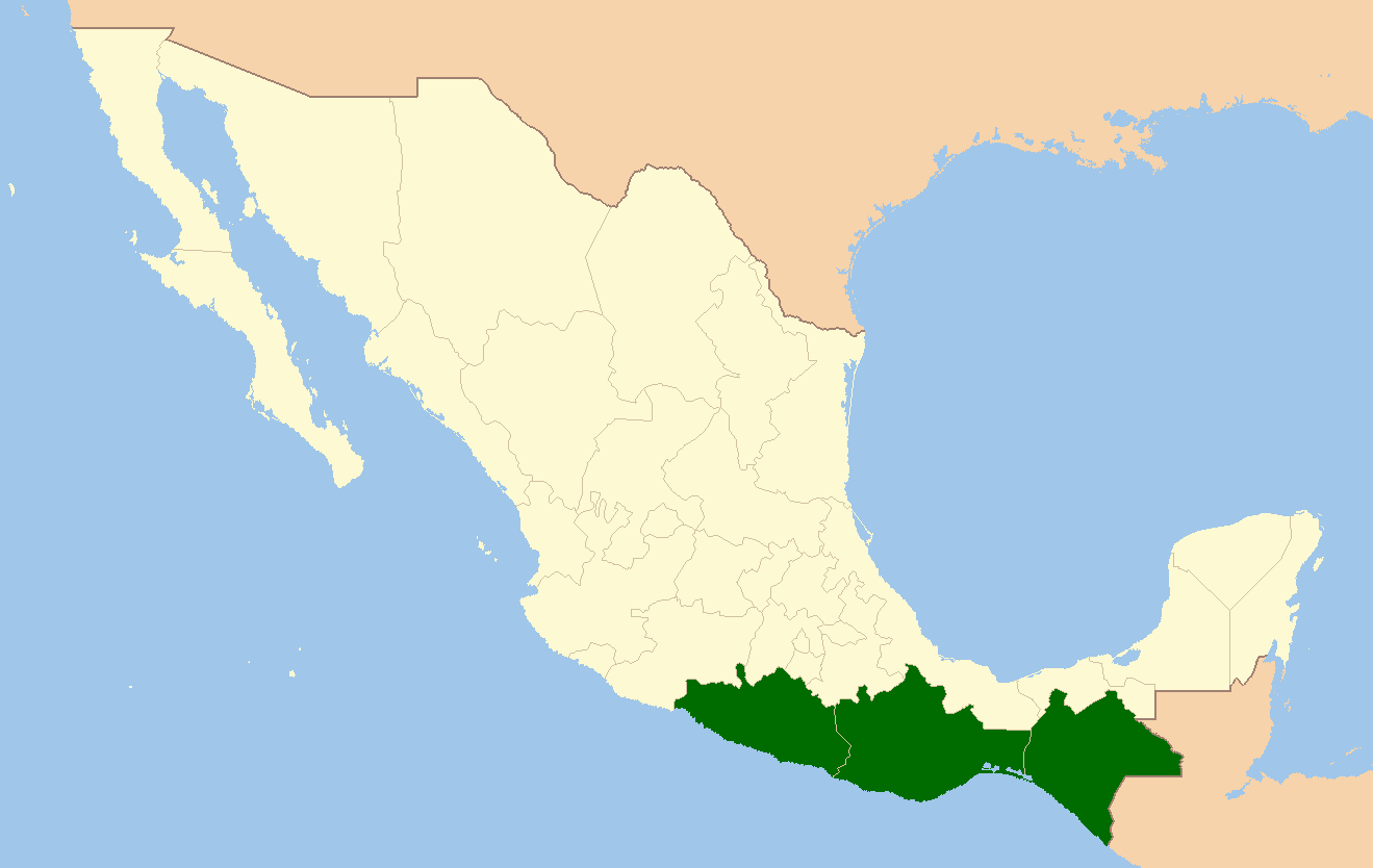 Southwestern Mexico